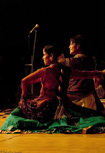 Performance at the Sawai Gandharva festival (2008), Pune